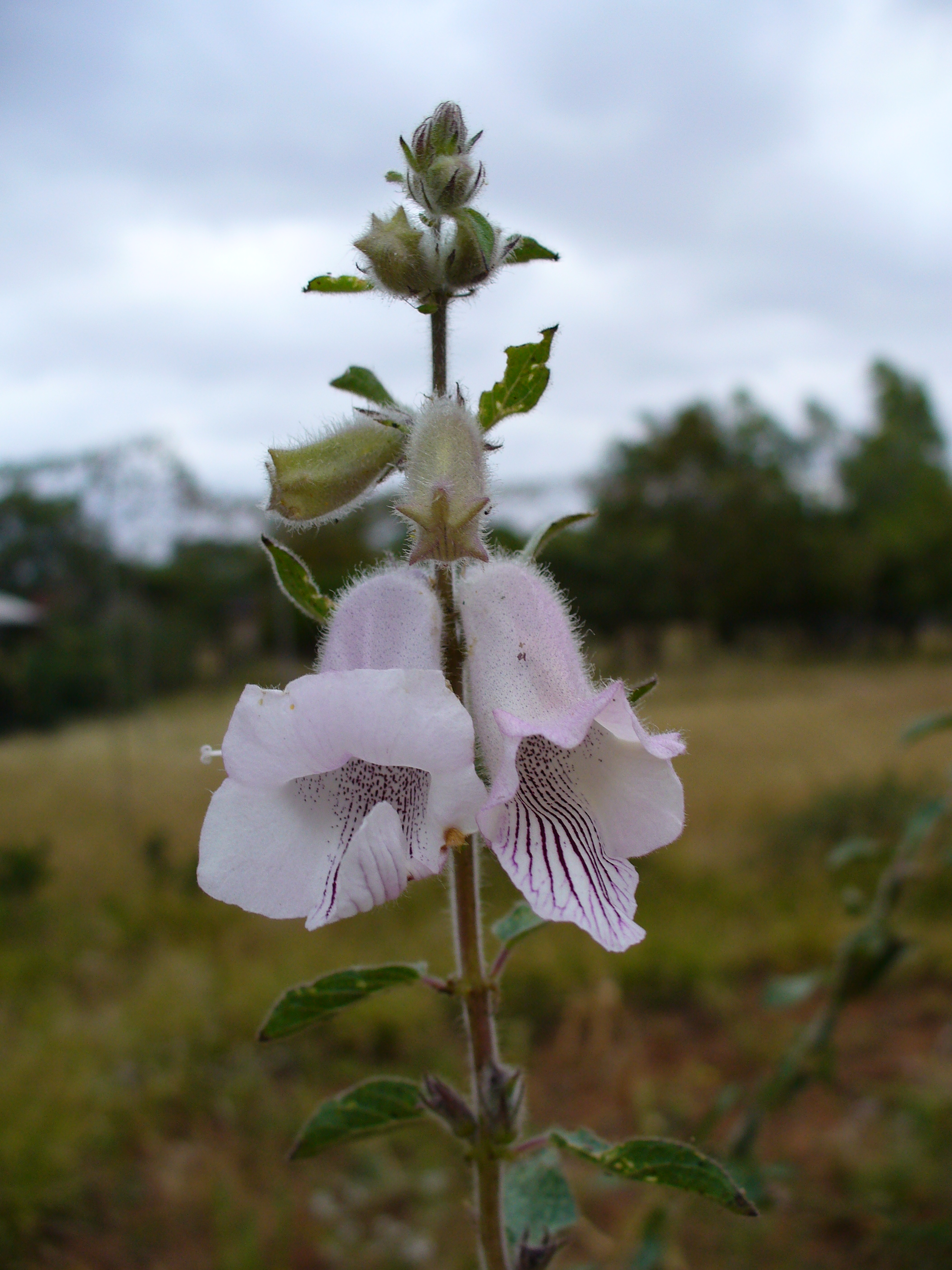 I am the originator of this photo. I hold the copyright. I release it to the public domain. This photo depicts flowers.